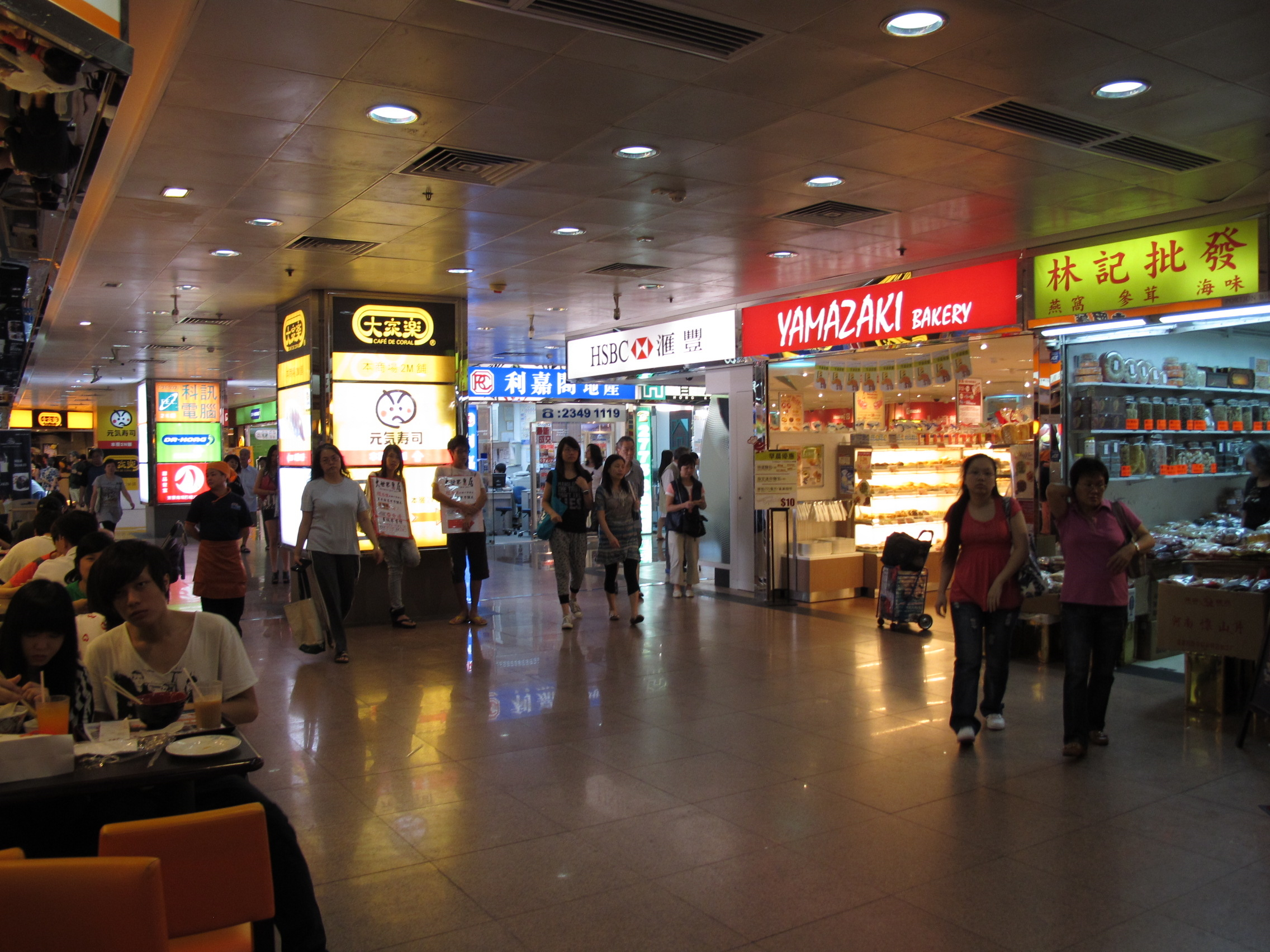 Sceneway Plaza L4 Shops